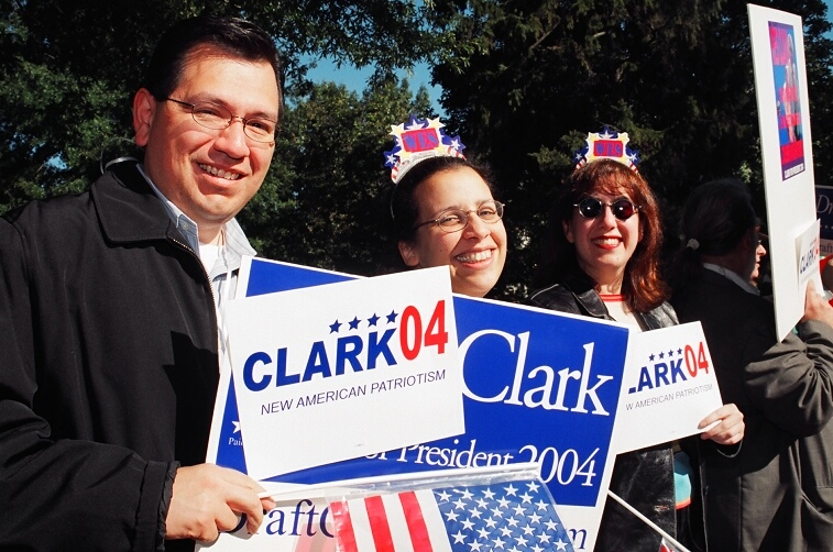 Democratic National Committee Fall Meeting at the Washington Marriott Wardman Park Hotel at 2660 Woodley Road, NW, Washington DC on Friday, 3 October 2003 by Elvert Barnes Protest Photography GENERAL WESLEY CLARK 2004 PRESIDENTIAL CAMPAIGN Elvert Barnes PROTEST PHOTOGRAPHY at